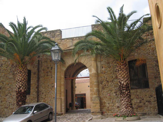 Mezzojuso, Sicily